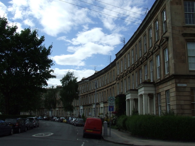 St Vincent Crescent In the west end of Glasgow.